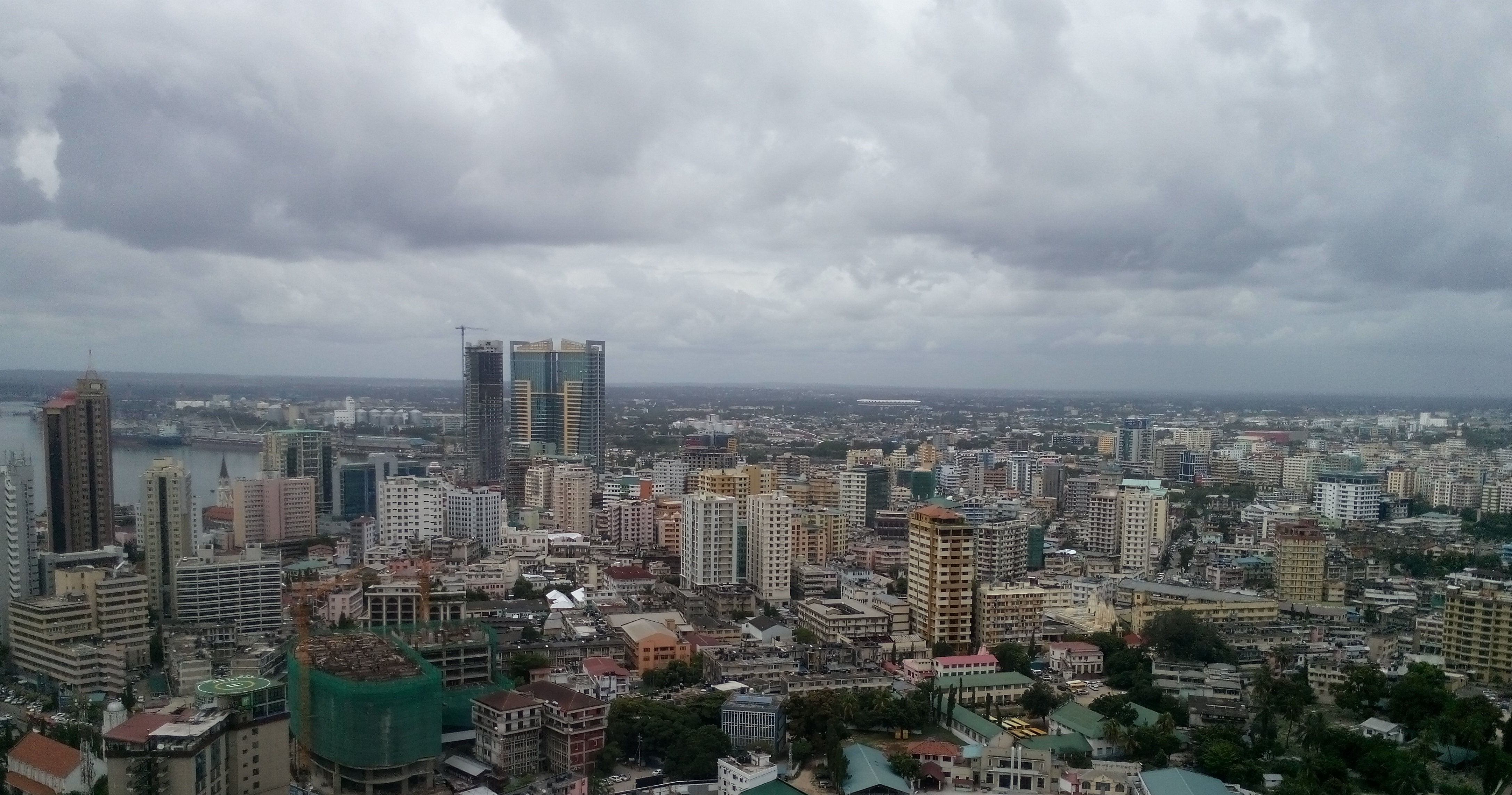 Taken by Ali Damji